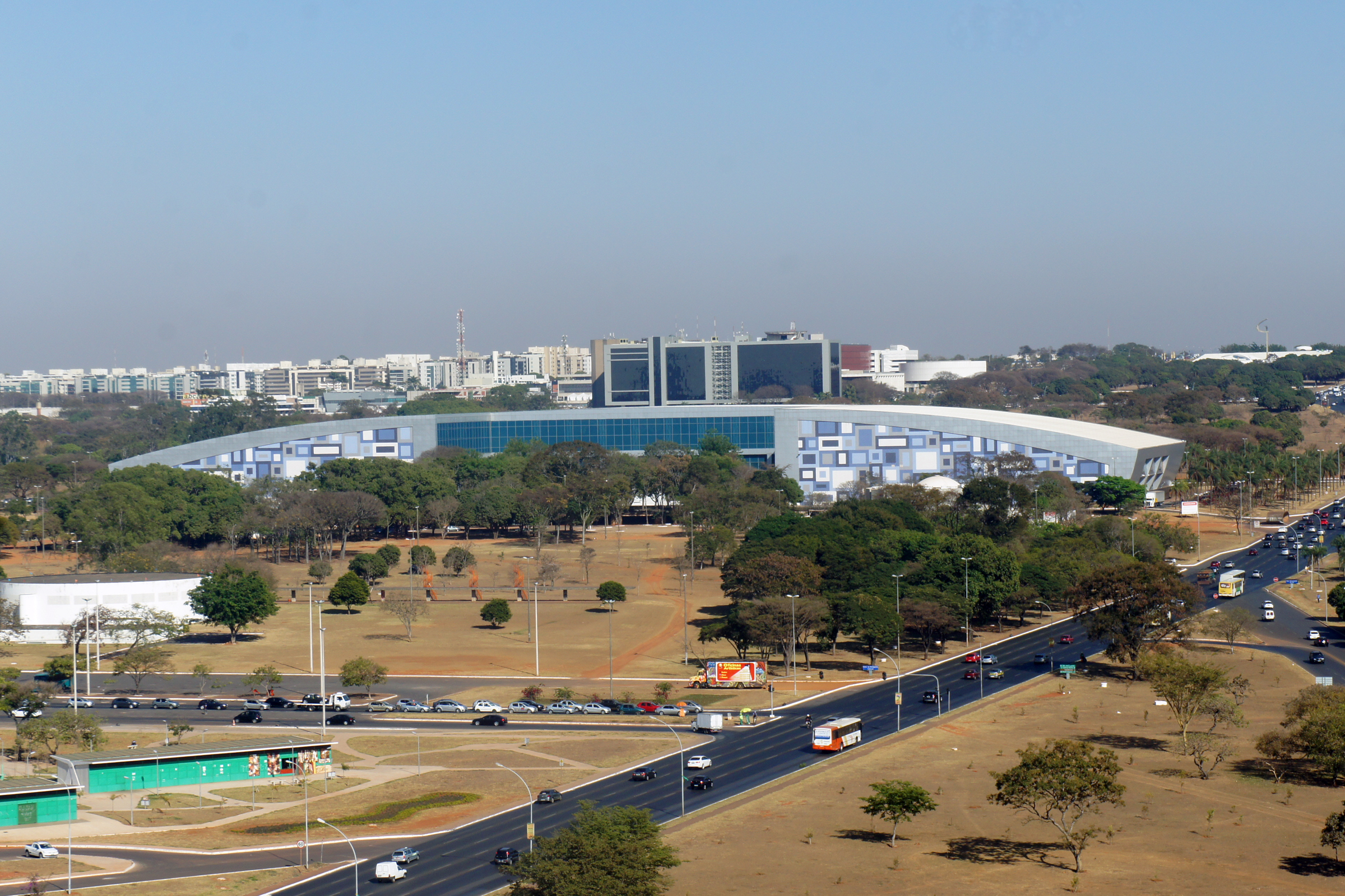 Ulysses Guimarães Convention Center, Brasilia, D.F., Brazil